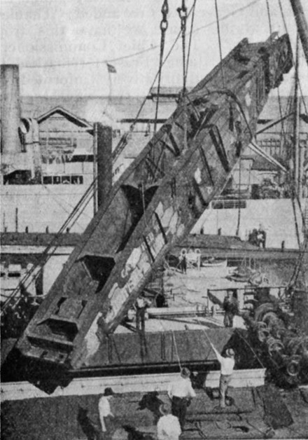 Unloading the carriage of the captured German 28-cm "Amiens Gun" at Sydney's Darling Harbour.